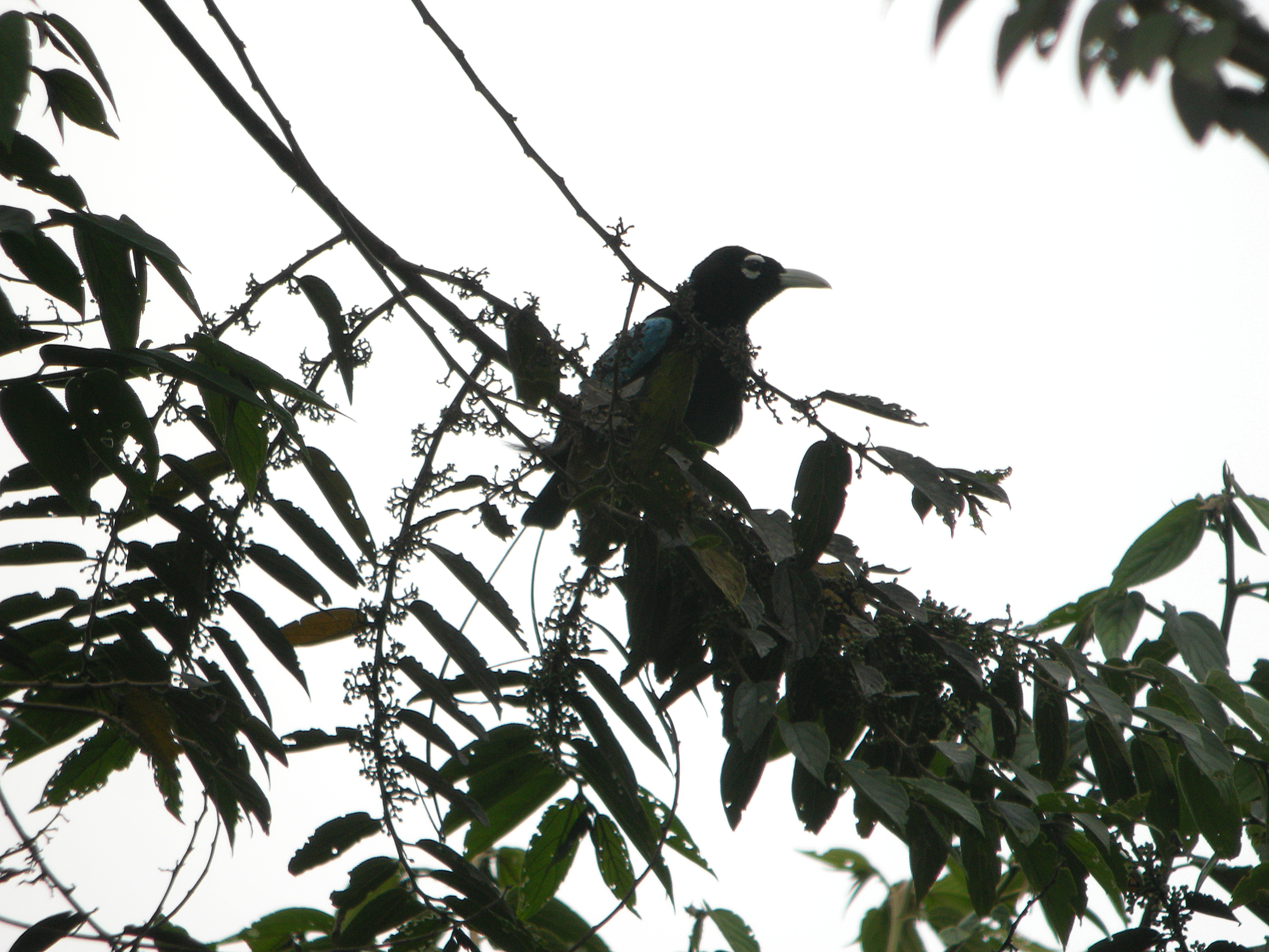 Blue Bird of Paradise in Papua New Guinea.